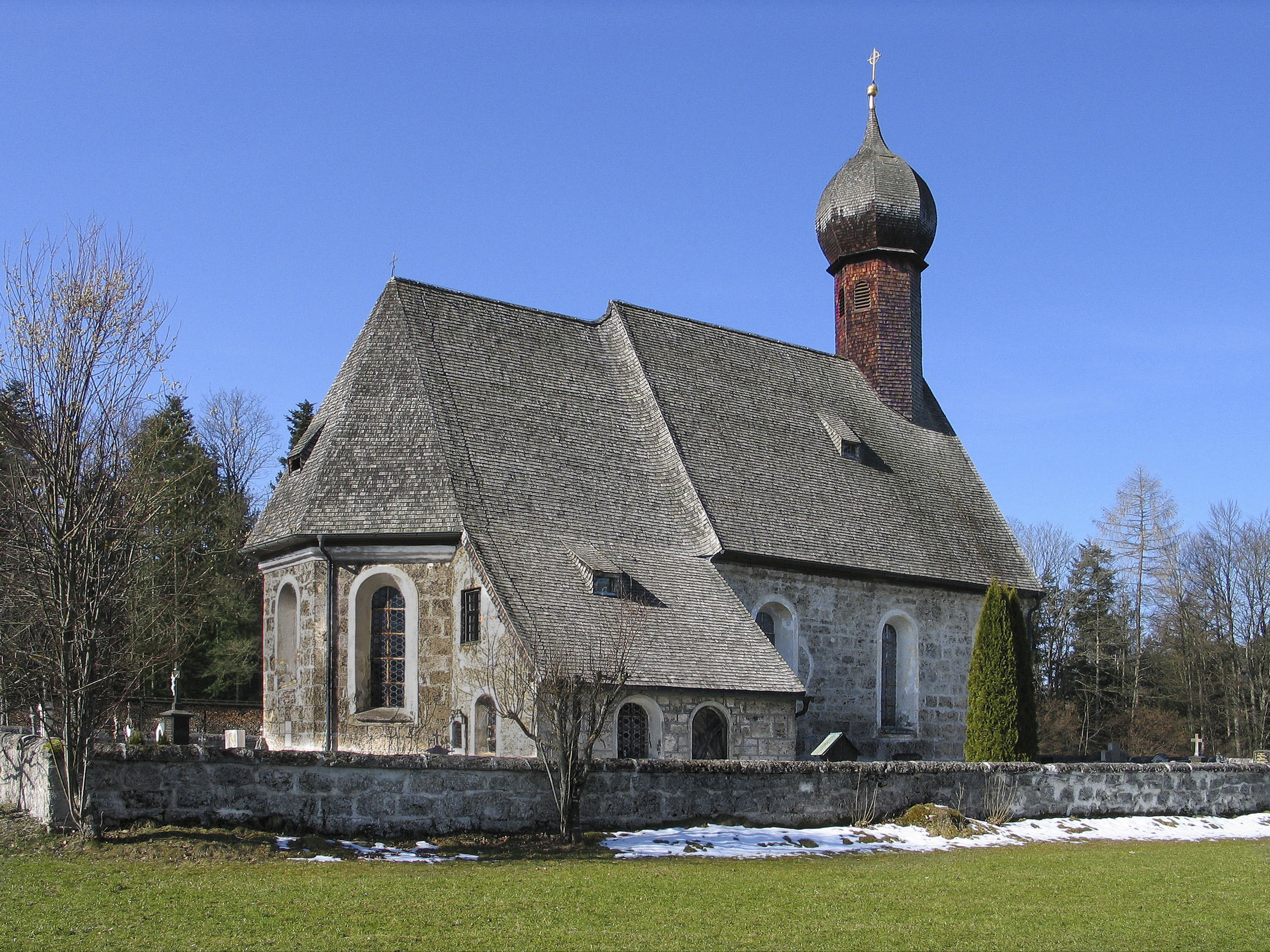 Gotzing (Weyarn municipality), exterior view of St James' Subsidiary Church facing south-west.